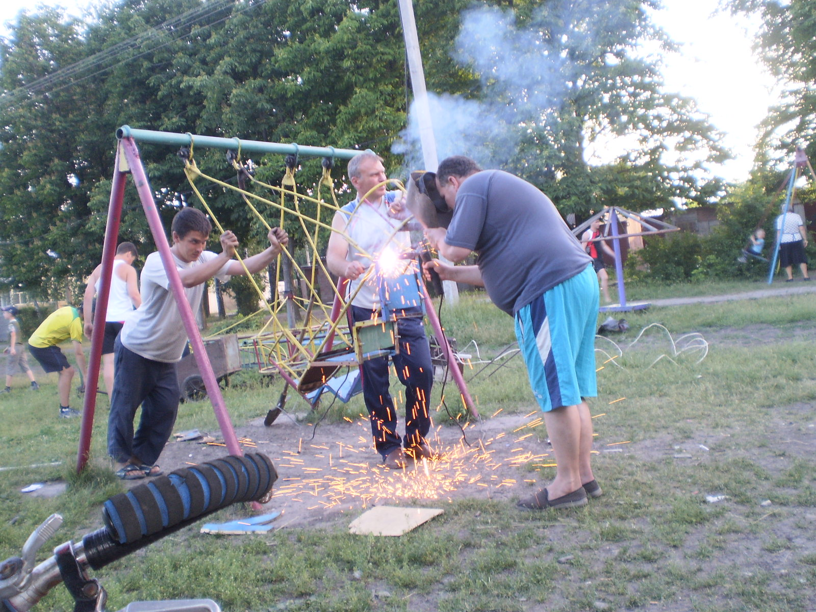 Площадка